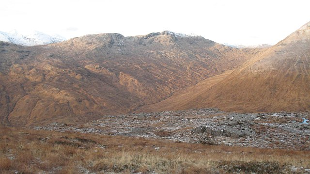 Braigh nan Uamhachan Steep ground on the east side of Braigh nan Uamhachan seen from Aodann Chlèireig.